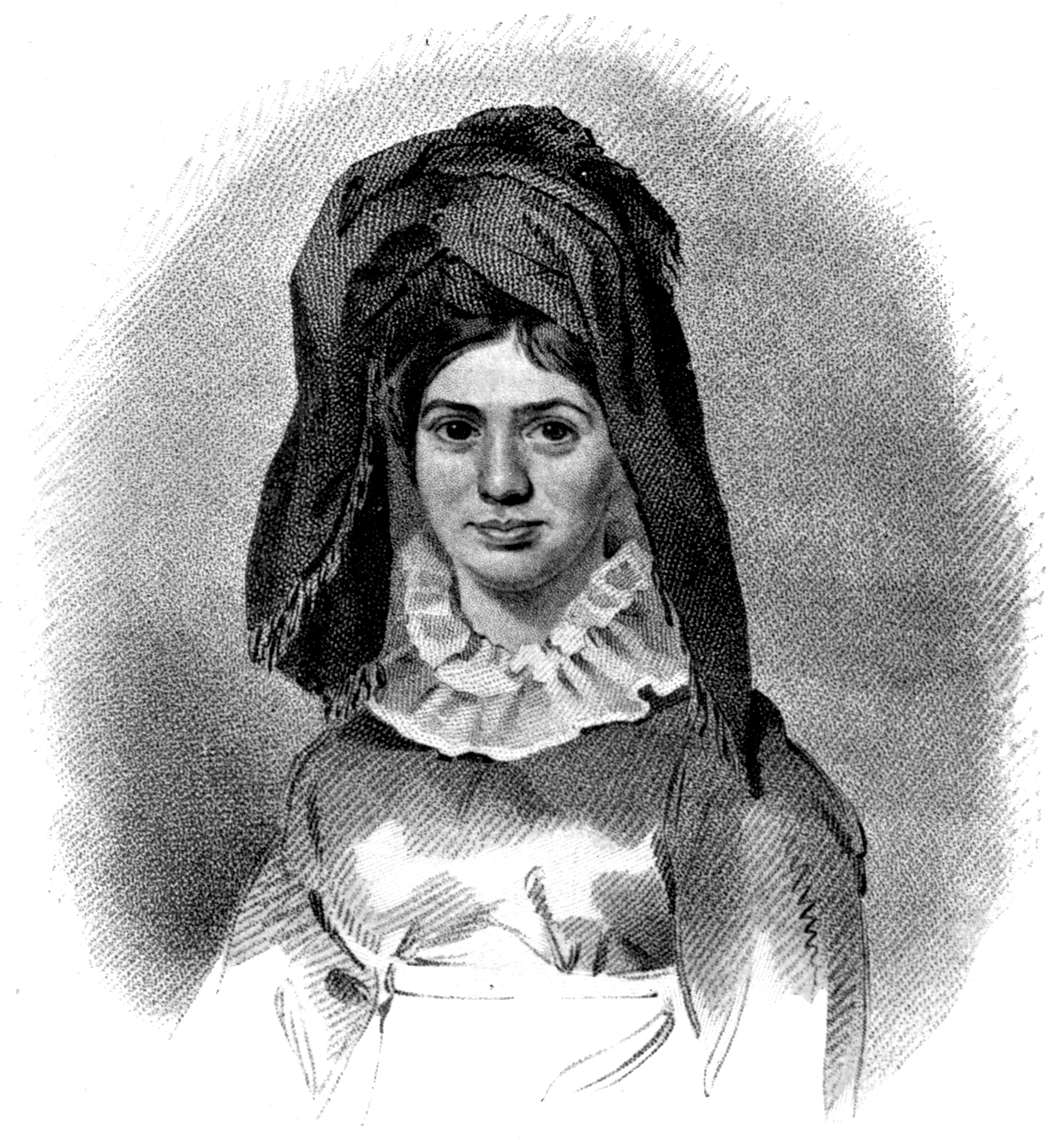 Princess Caraboo, an image from a book Devonshire characters and strange events by S. Baring-Gould (1908)